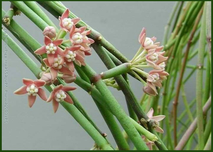 Sarcostemma vanlessenii (syn.Cynanchum), Collection de Khanon. — Plant: v.2001, размер соцветия (зонтик) 17-20 мм., диаметр одного цветка ~ 7-9 мм.